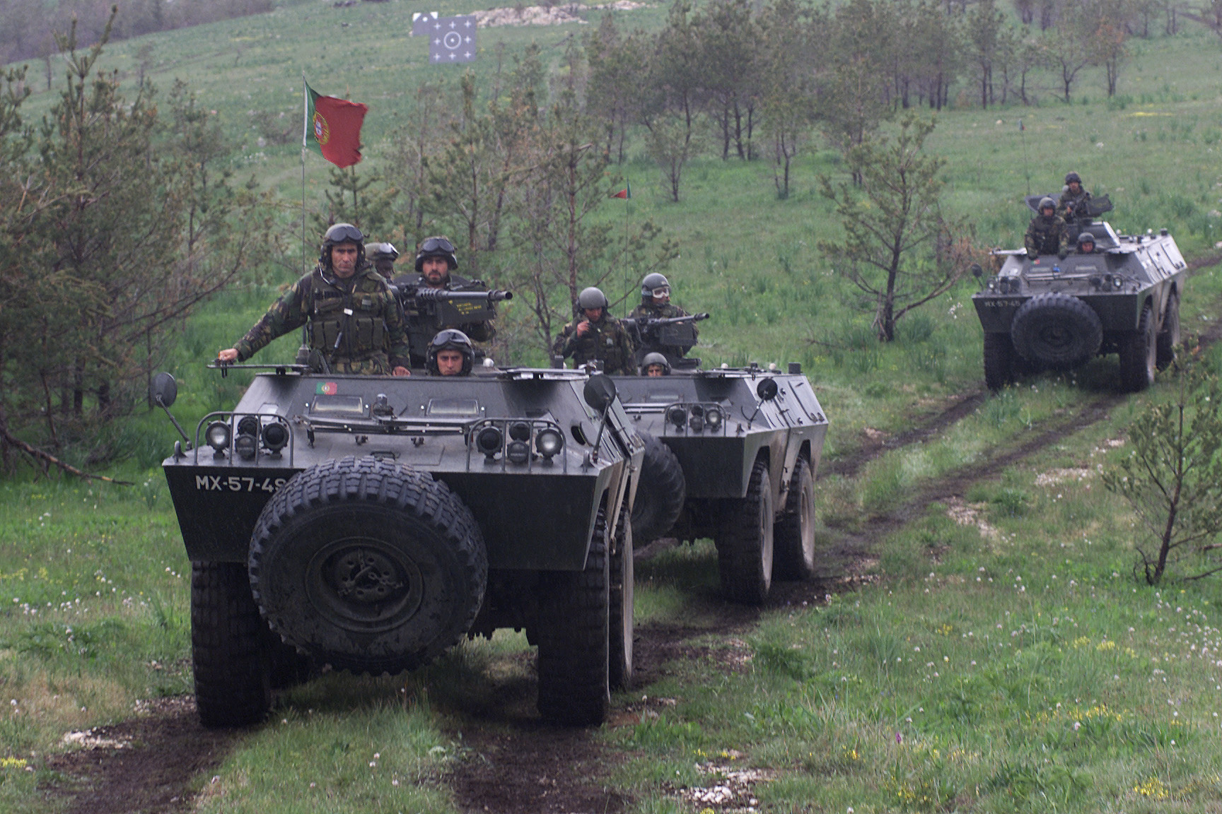 During exercise Iberian Resolve, Portuguese soldiers from the 2nd Armored Division use Chaimite V200 Armored Personnel Carriers to steer their way through the impact target area on the Glamoc live-fire range in western Bosnia. On this day for more than an hour, the Portuguese soldiers worked in conjunction with a pair of U.S. Army OH-58D helicopters to engage a series of large rectangular targets on a far hillside using Milan anti-tank missiles, Browning 50 cal machine guns, and shoulder mounted sniper rifles. The objective of exercise Iberian Resolve is to integrate Multinational Division OPRES Ground forces from the Portuguese 2nd Armored Division and OPRES Air Forces from the U.S. Army's 1-25 Aviation into a combined live fire exercise. Location: CAMP BUTMIR.